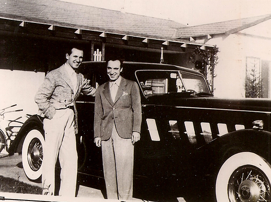 Tom Lyle Williams with his partner of 50 years, Emery Shaver